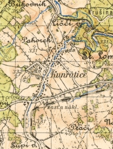 The map of Kunratice (Liberec District) from the Third Military Mapping Survey of Austria Empire